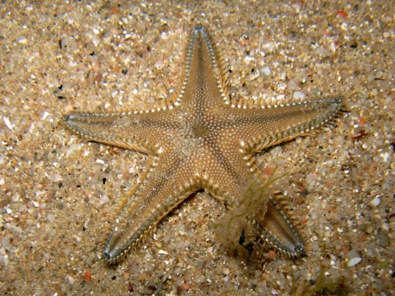 Astropecten platyacanthus